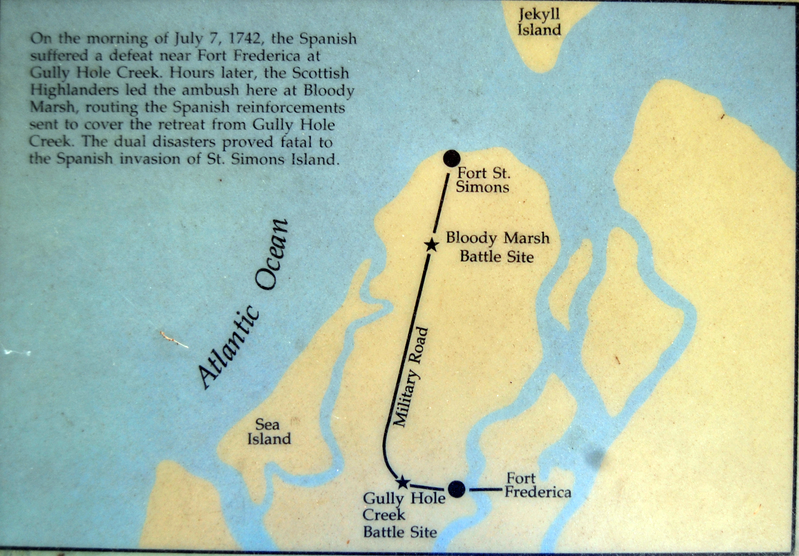 Map at Bloody Marsh, on St. Simons, Georgia. South is at the top and North is at the bottom.